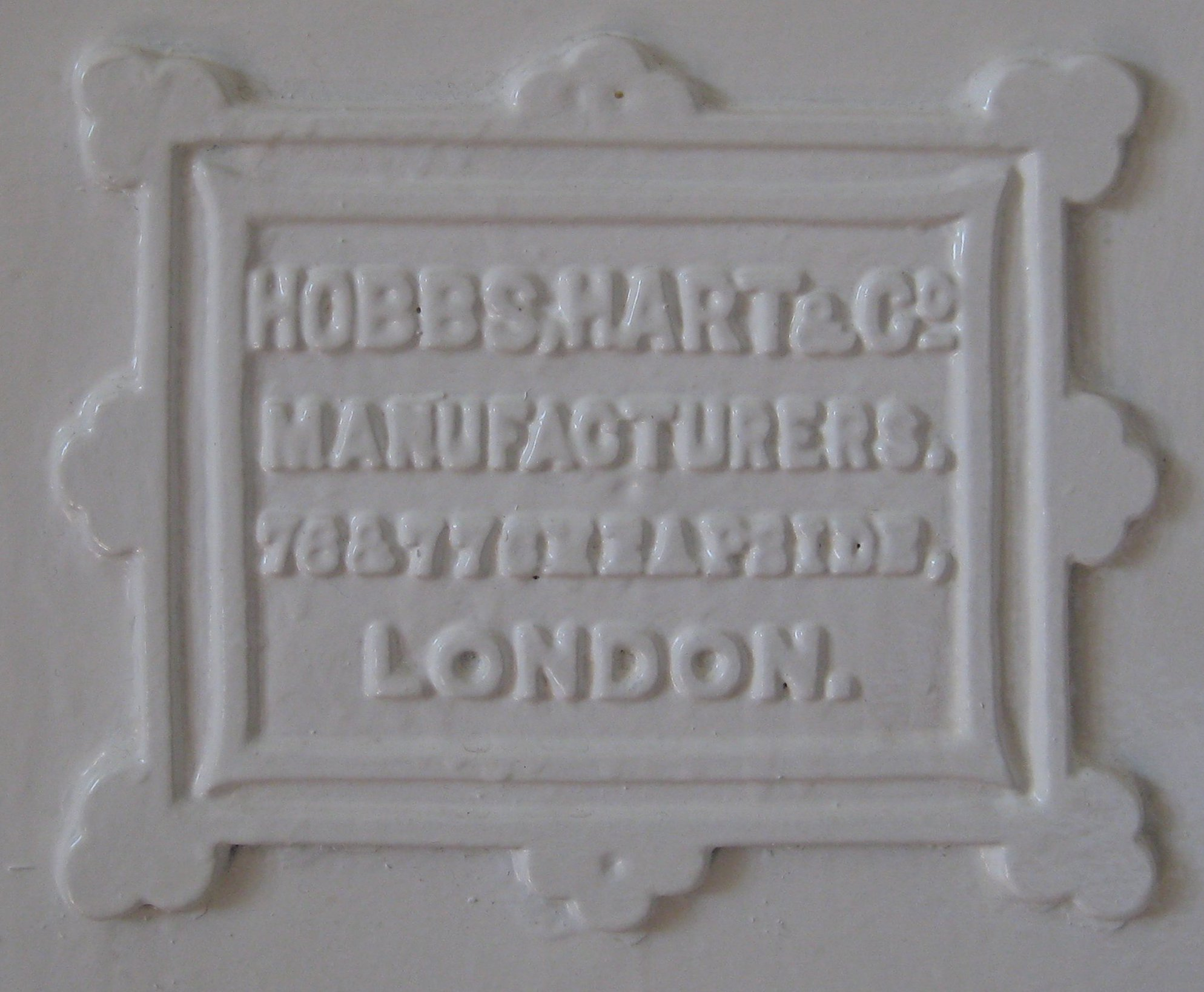 Manufacturers plate on the door of a strong room. The strong room is in the Farnham House Hotel, Farnham, Surrey, UK. Originally a private, the strong room is accessed from the master bedroom and is now used as a walk-in wardrobe. The legend reads: HOBBS,HART&Co MANUFACTUERS. 76&77CHEAPSIDE, LONDON.